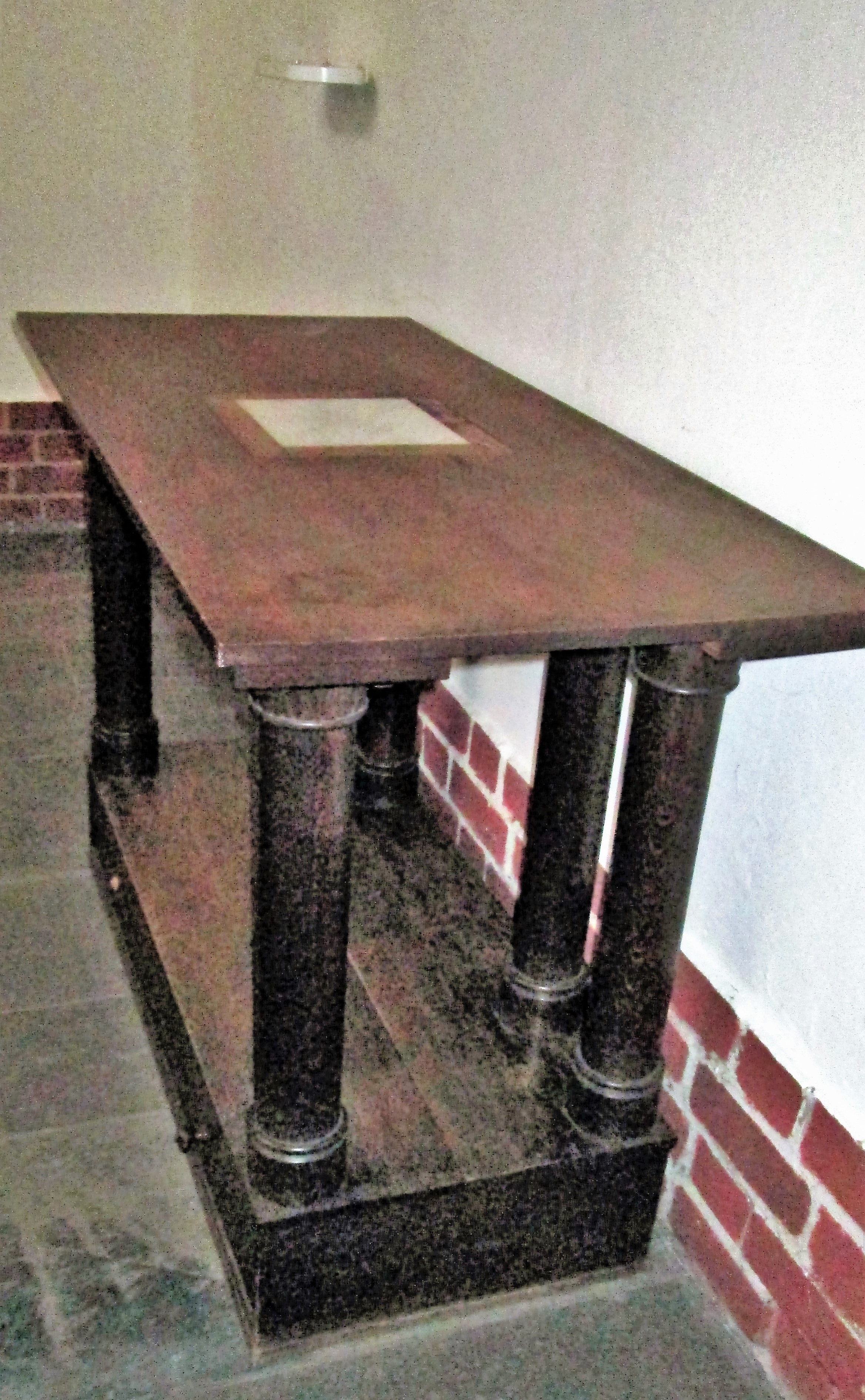 Portable altar (wooden, with altar stone) (Berlin 2016)